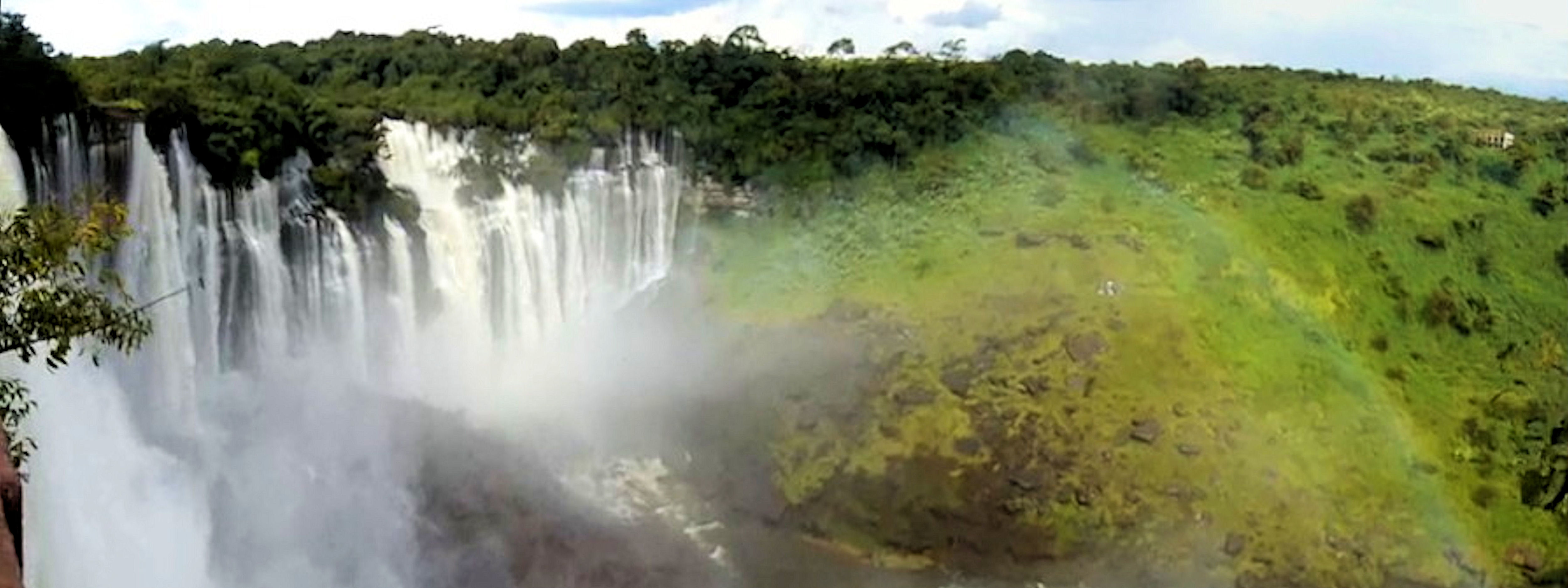 Panoramic view of Kalandula Falls